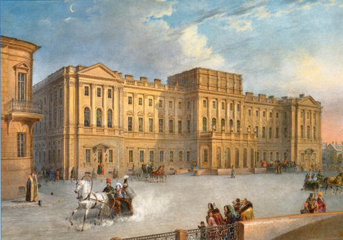 Vasily Sadovnikov. Mariinsky Palace in Saint Petersburg (1849).